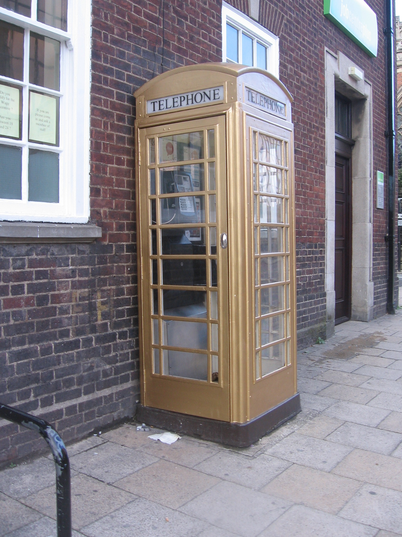 Commemorative gold telephone box for boxer Luke Campbell winning gold in the 2012 Summer Olympic Games.